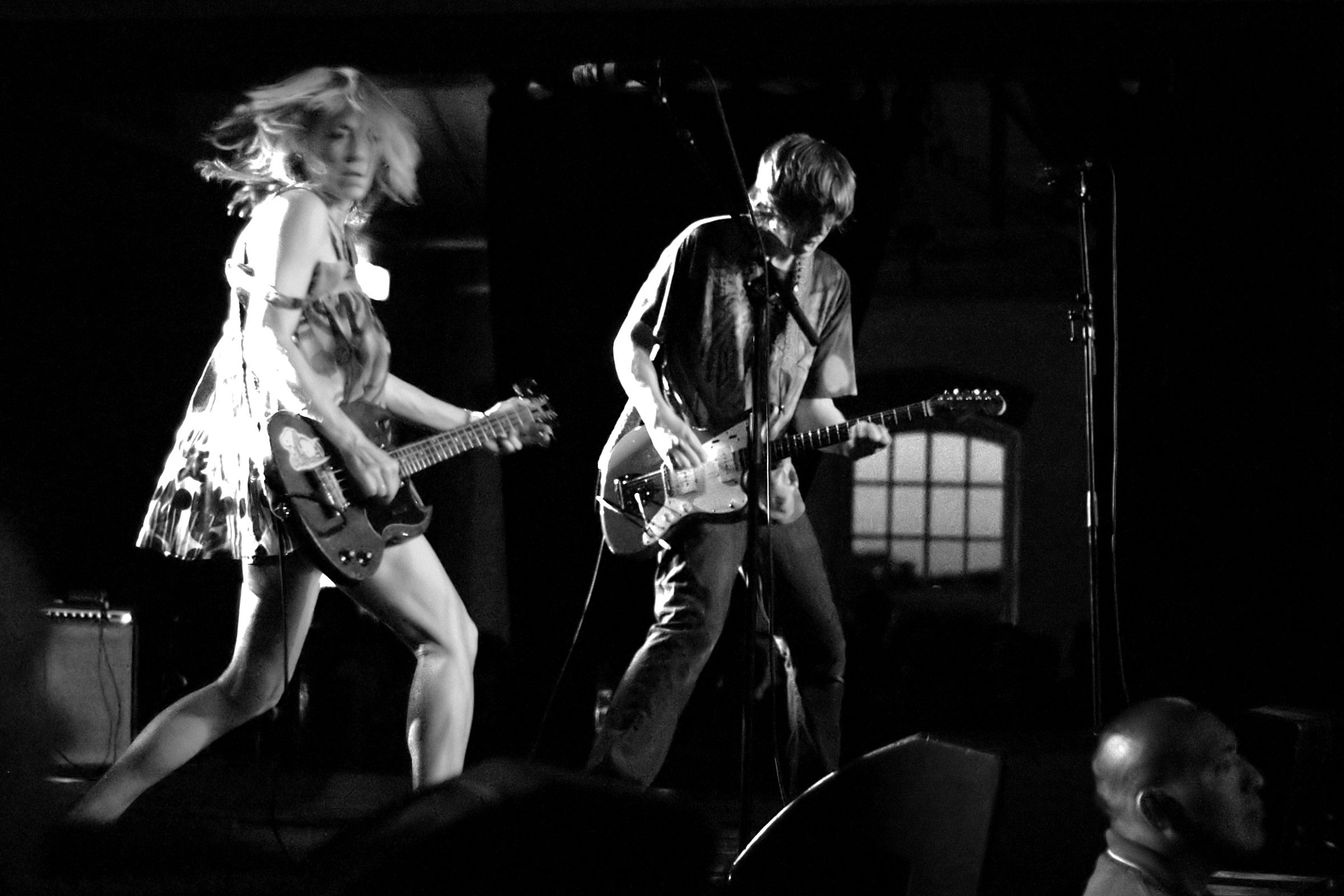 Kim Gordon and Thurston Moore of Sonic Youth live at Accelerator, Münchenbryggeriet, Stockholm, Sweden, 2005-07-07. (c) Anders Jensen-Urstad